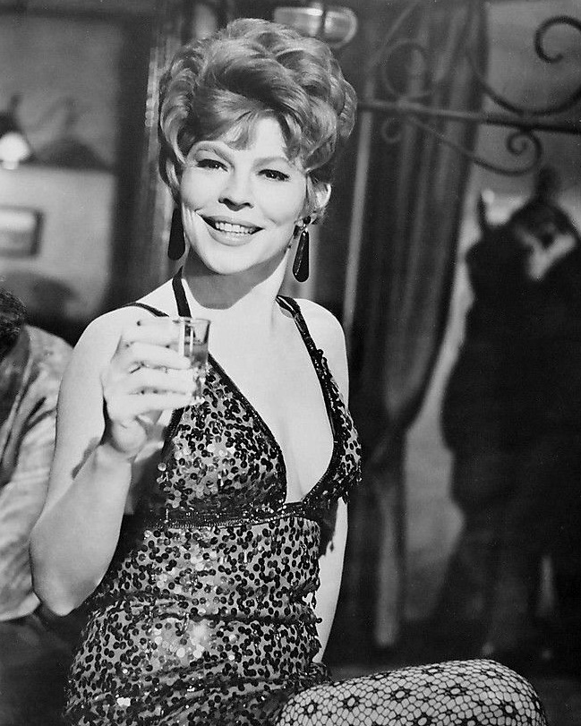 Anne Jackson in Secret Life of an American Wife in 1968